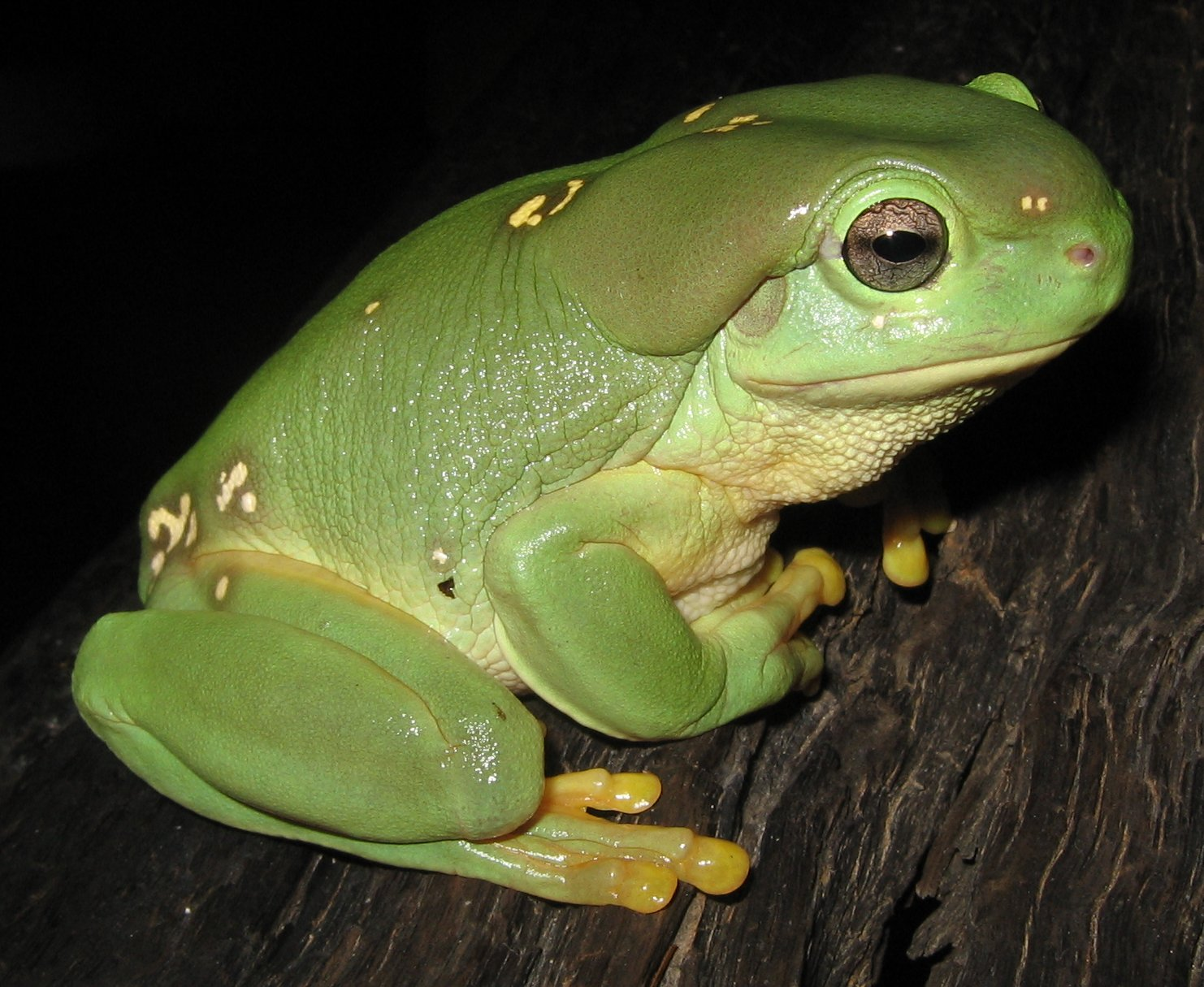 A Magnificent Tree Frog (Litoria splendida), with almost partially developed paratoid glands.